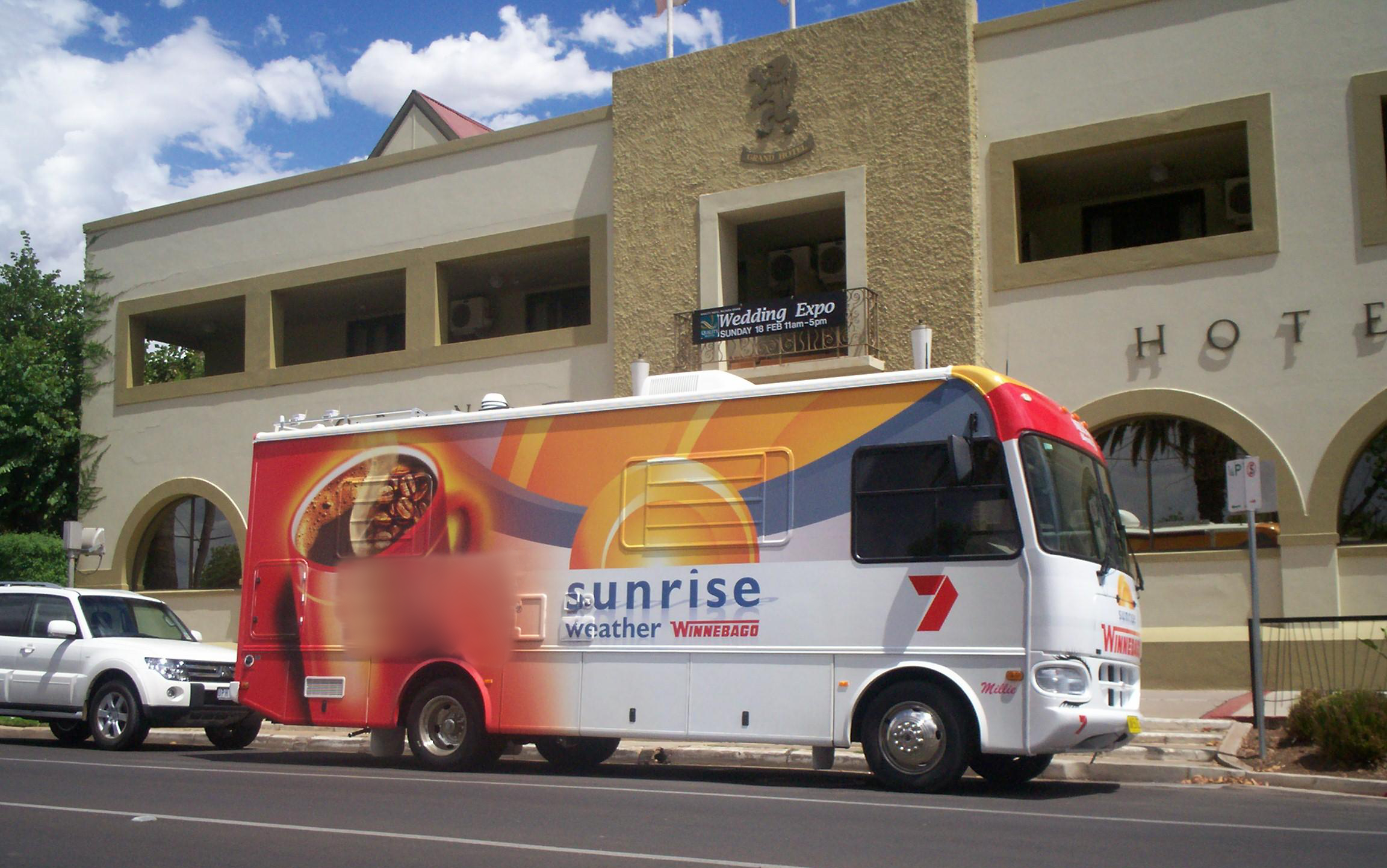 The Sunrise Blend43 Weather Winnebago. Grand Hotel, Mildura, Victoria.